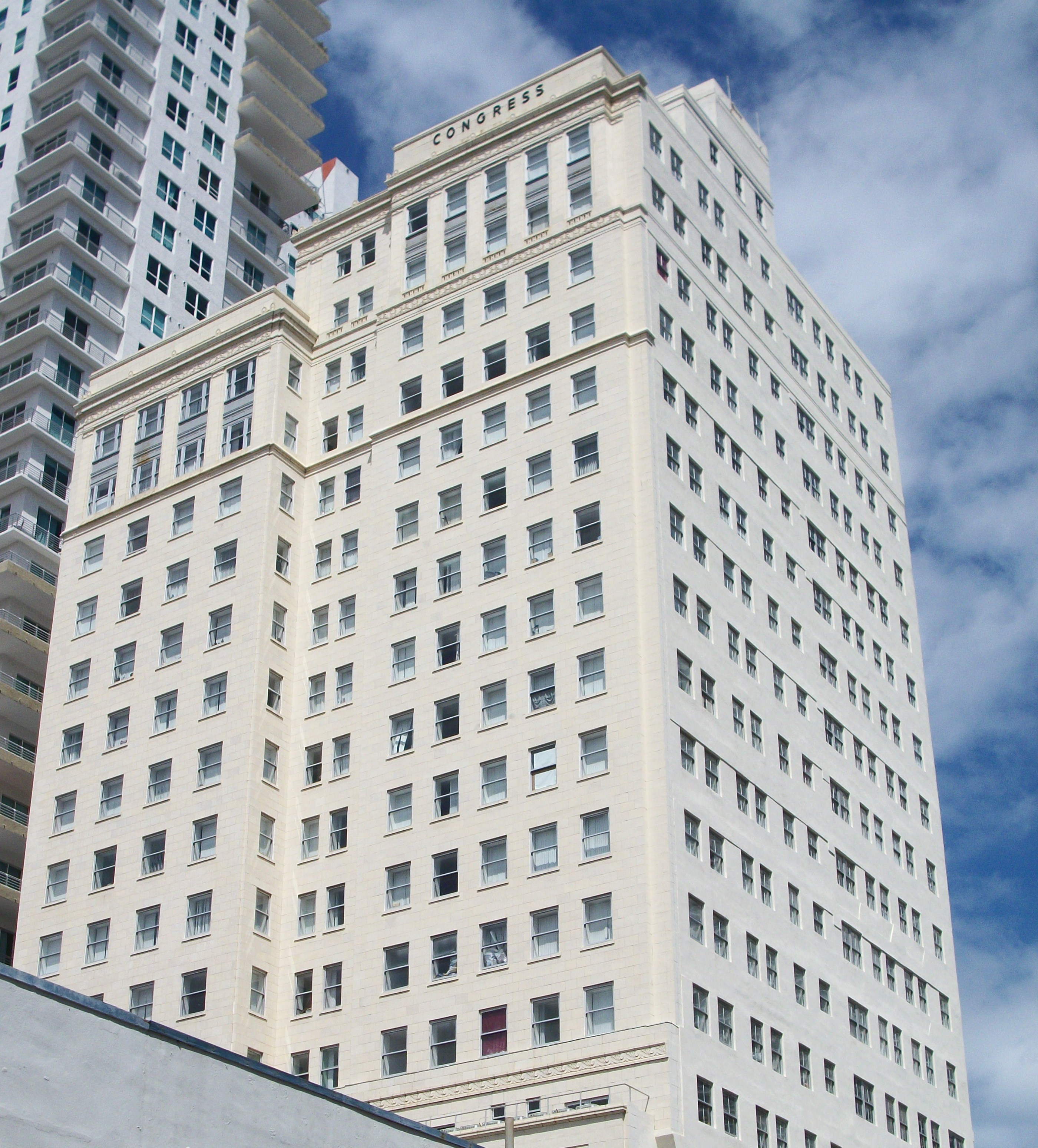 The Congress Building Object location 25° 46′ 31.0″ N, 80° 11′ 24.0″ W This and other images at their locations on: Google Maps - Google Earth - OpenStreetMap - Proximityrama(Info)